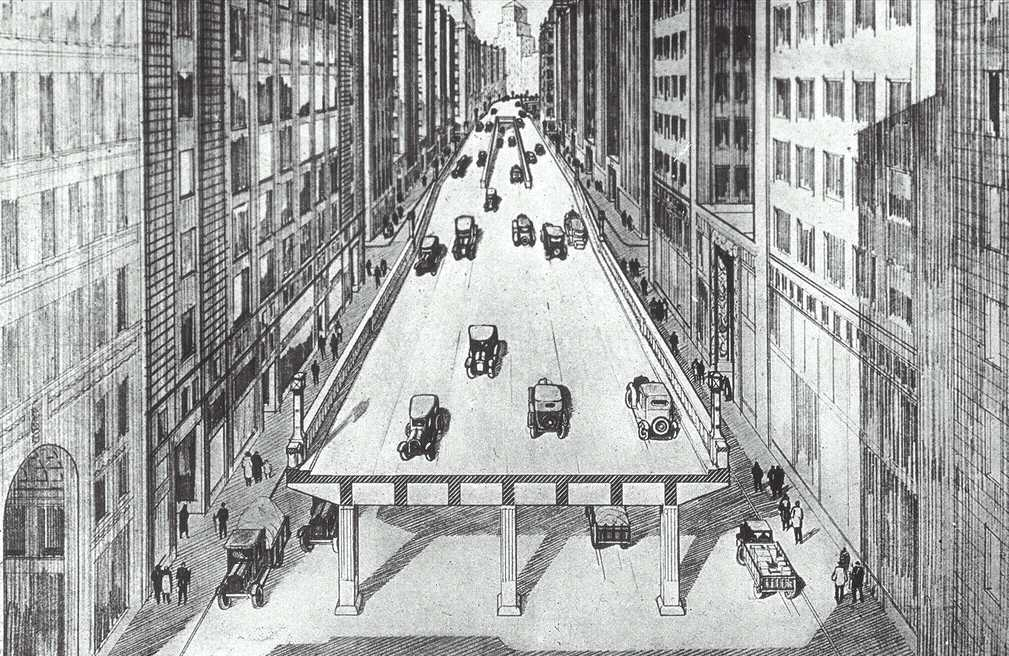 A plan for Boston's Central Artery, based on New York City's West Side Highway. Part of American Landscape and Architectural Design, 1850-1920 collection.